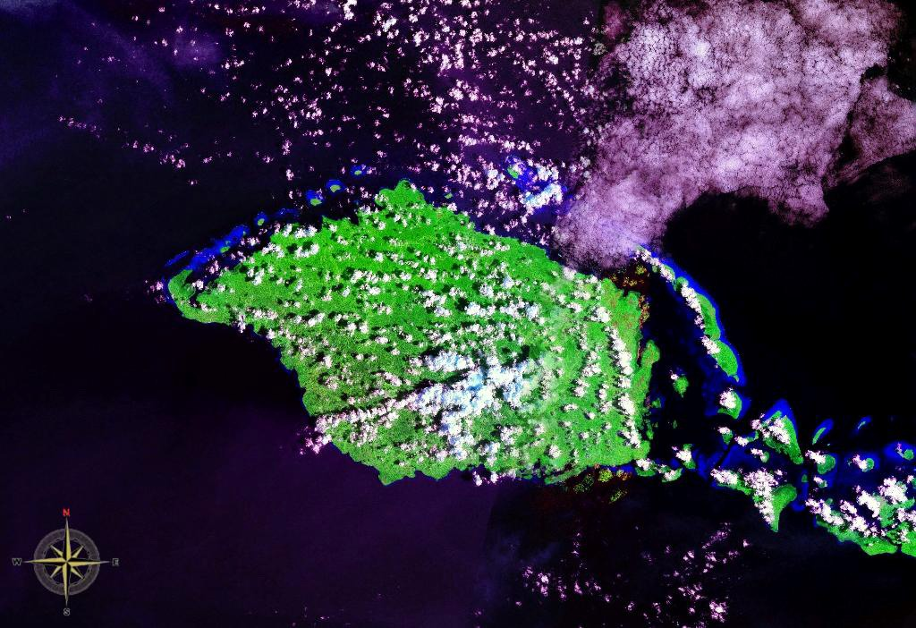 New Hanover Island in Papua New Guinea. Satellite picture.